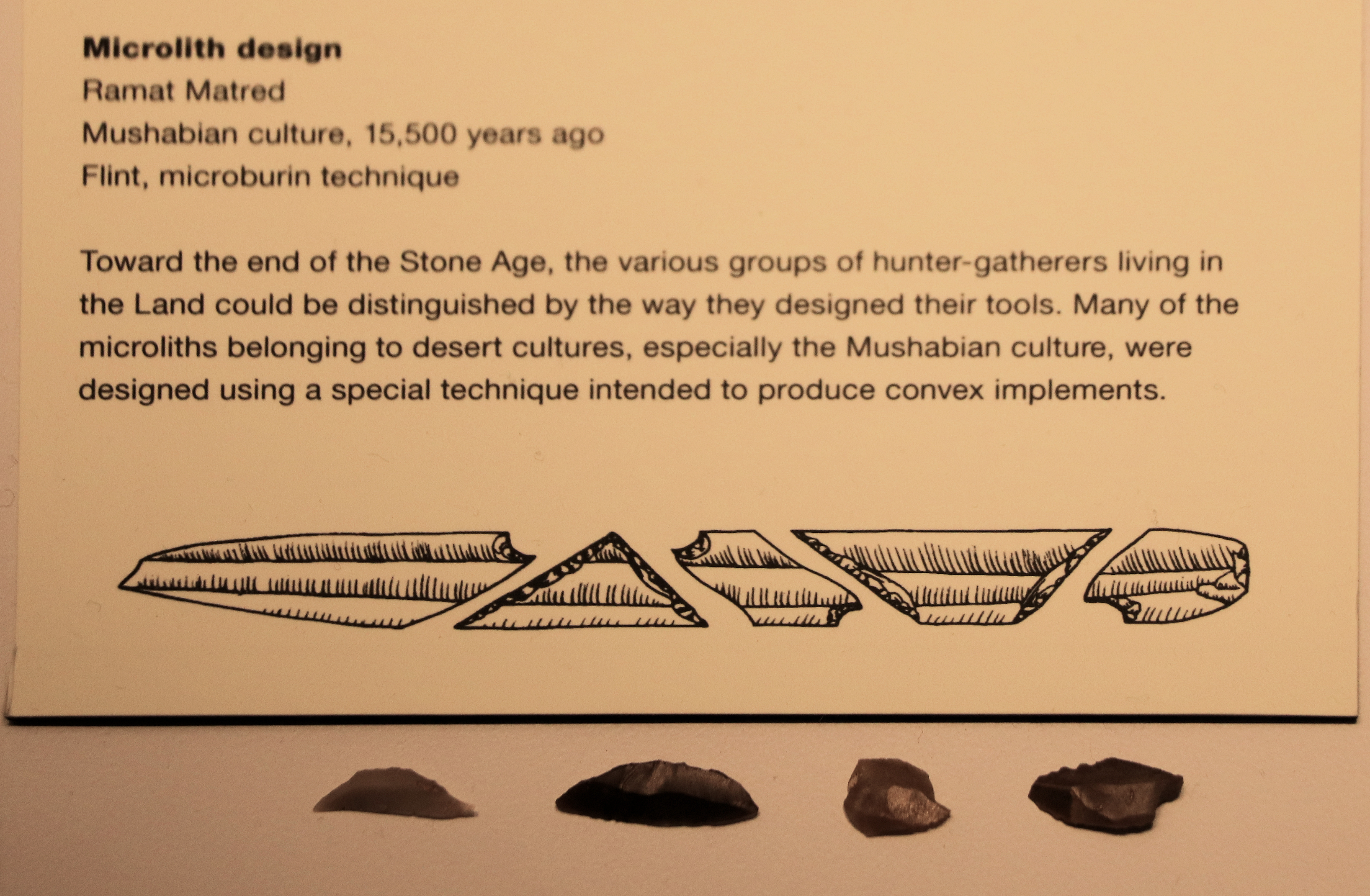 Flint Microliths, Mushabian culture Israel Museum, Jerusalem, Israel. Complete indexed photo collection at .